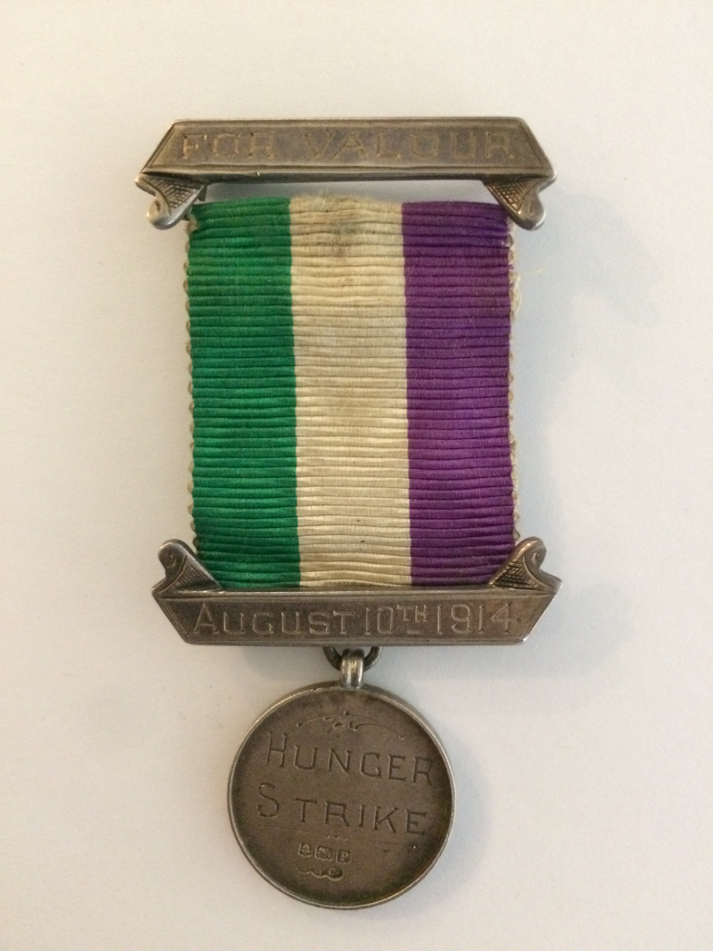 Mrs Lilian Metge joined the WSPU in 1914 and was responsible, allegedly, for the most violent act of the Irish suffrage campaign: the bombing of Lisburn Cathedral. While on trial in Lisburn in August 1914 she went on hunger strike. In recognition, the WSPU awarded her this medal. It was likely the last medal awarded by the WSPU before they turned to support the war.